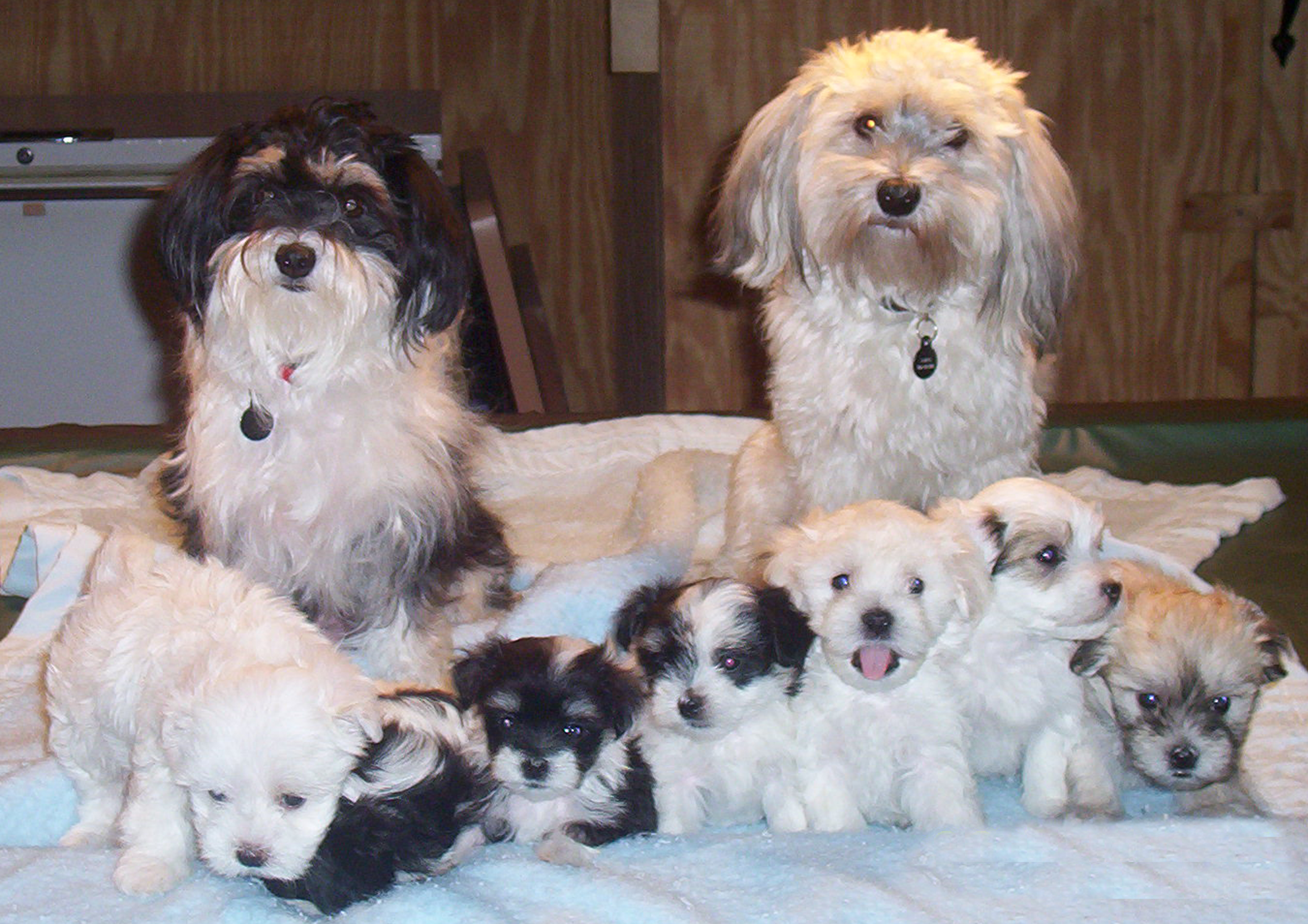 My two dogs' litter of seven havanese puppies. how cute